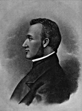 This is a Historic Portrait OF Francisco Morazan (originally published before 1839).